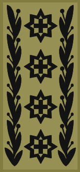 Military Rank Insignia Swiss Armed Forces